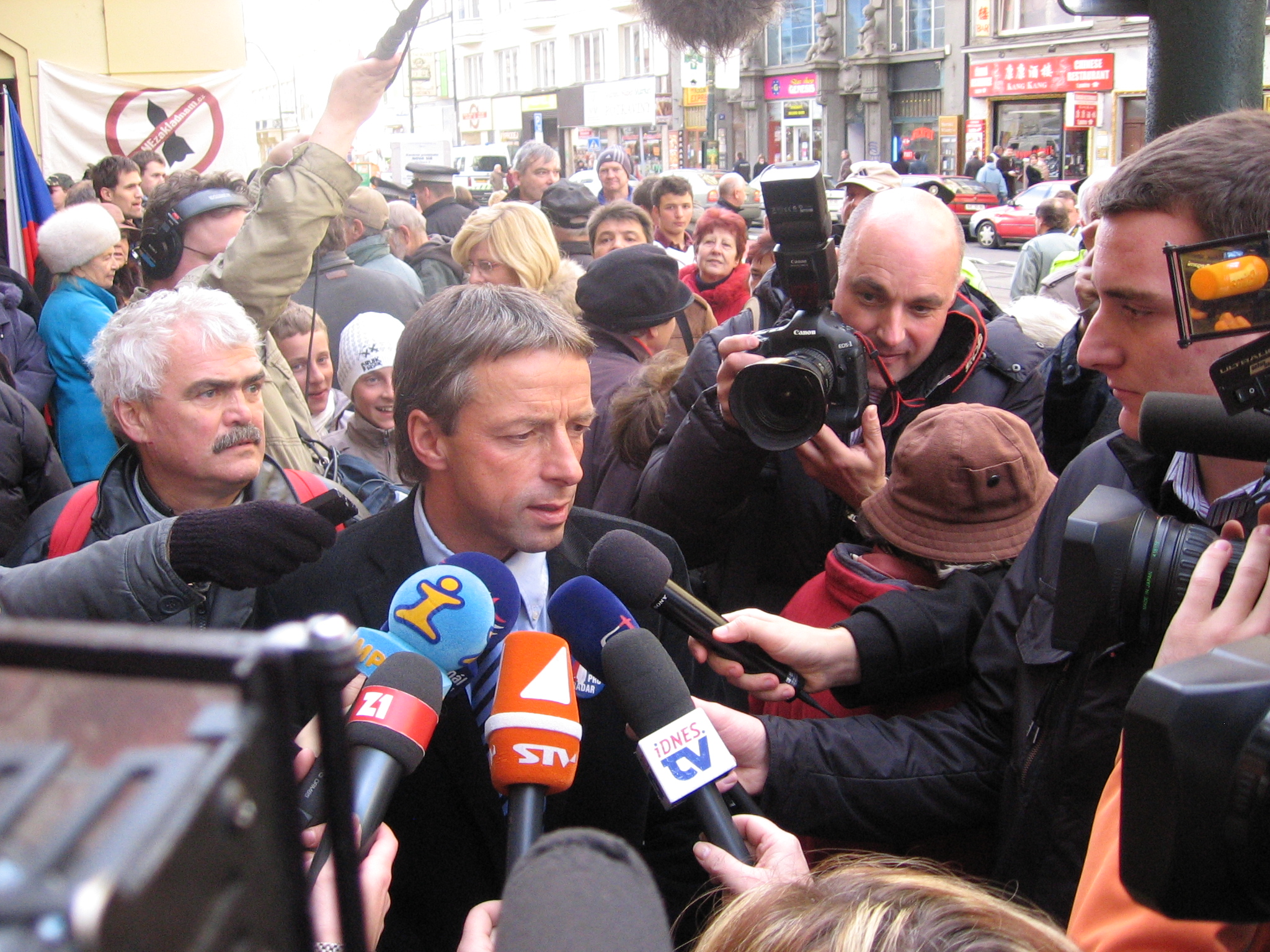 Pavel Bém, Former Prague Mayor, Czech Politician